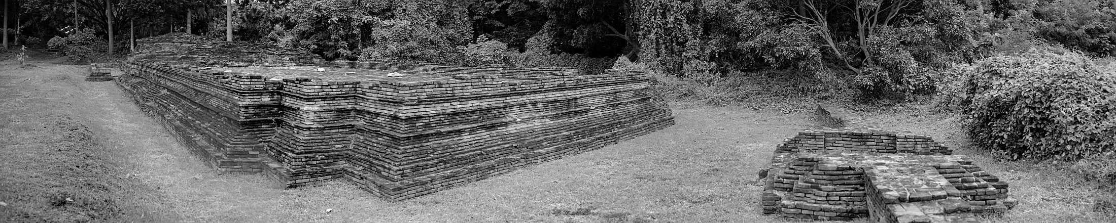 Panoramic view from the north of the ruins of Wat Oong Dam (วัดพระเจ้าองค์ดำ). Part of the Wiang Kum Kam archaeological site, Chiang Mai, northern Thailand.